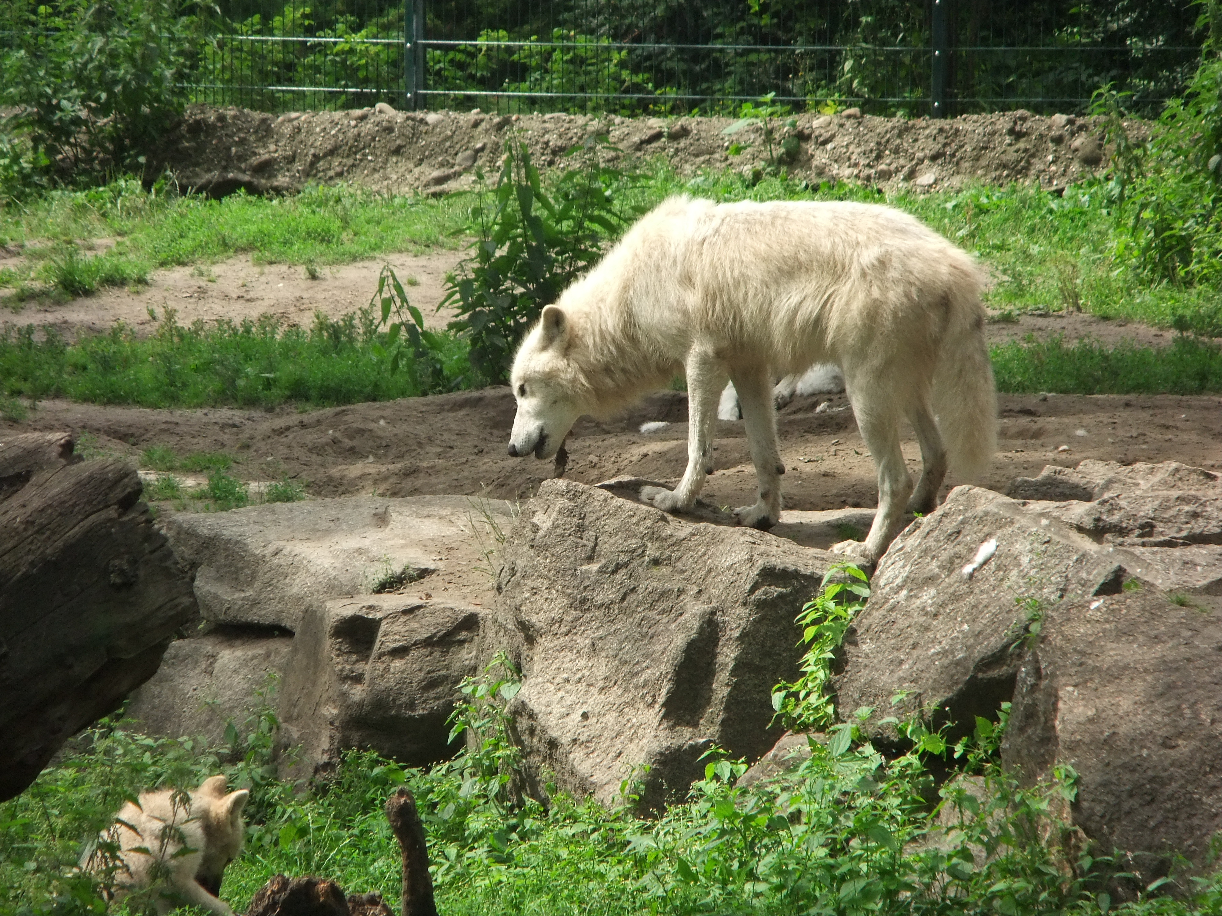 Gray wolf with white fur at Berlin zoological garden